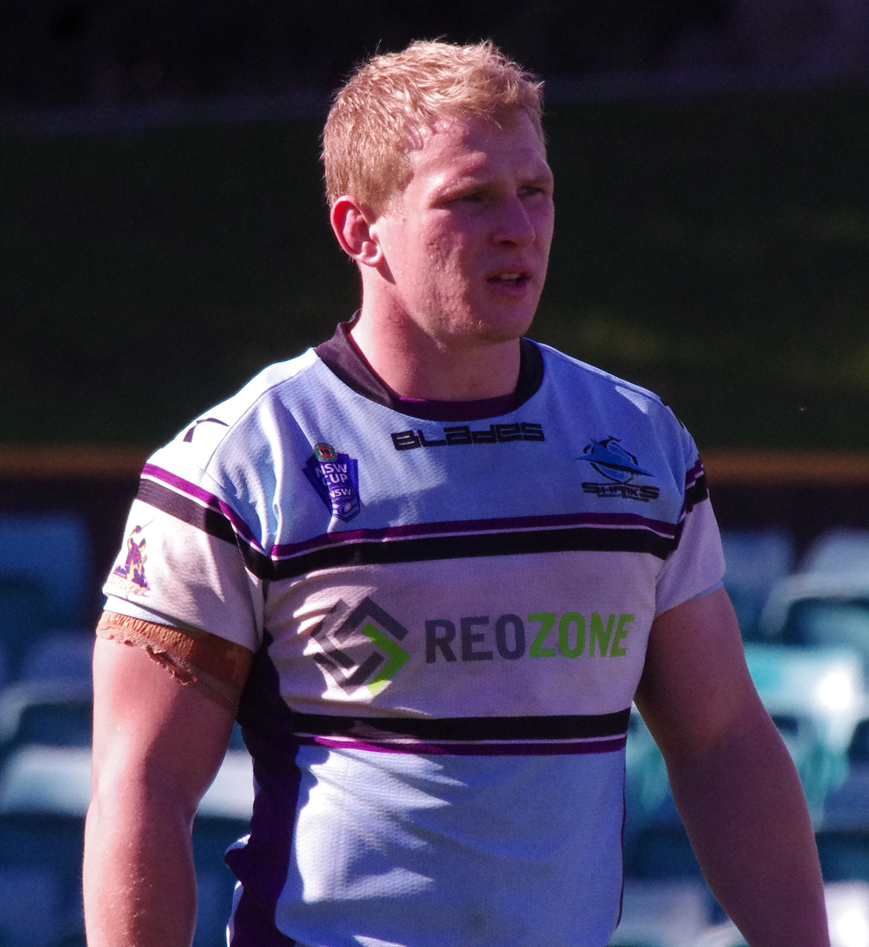 Slade Griffin